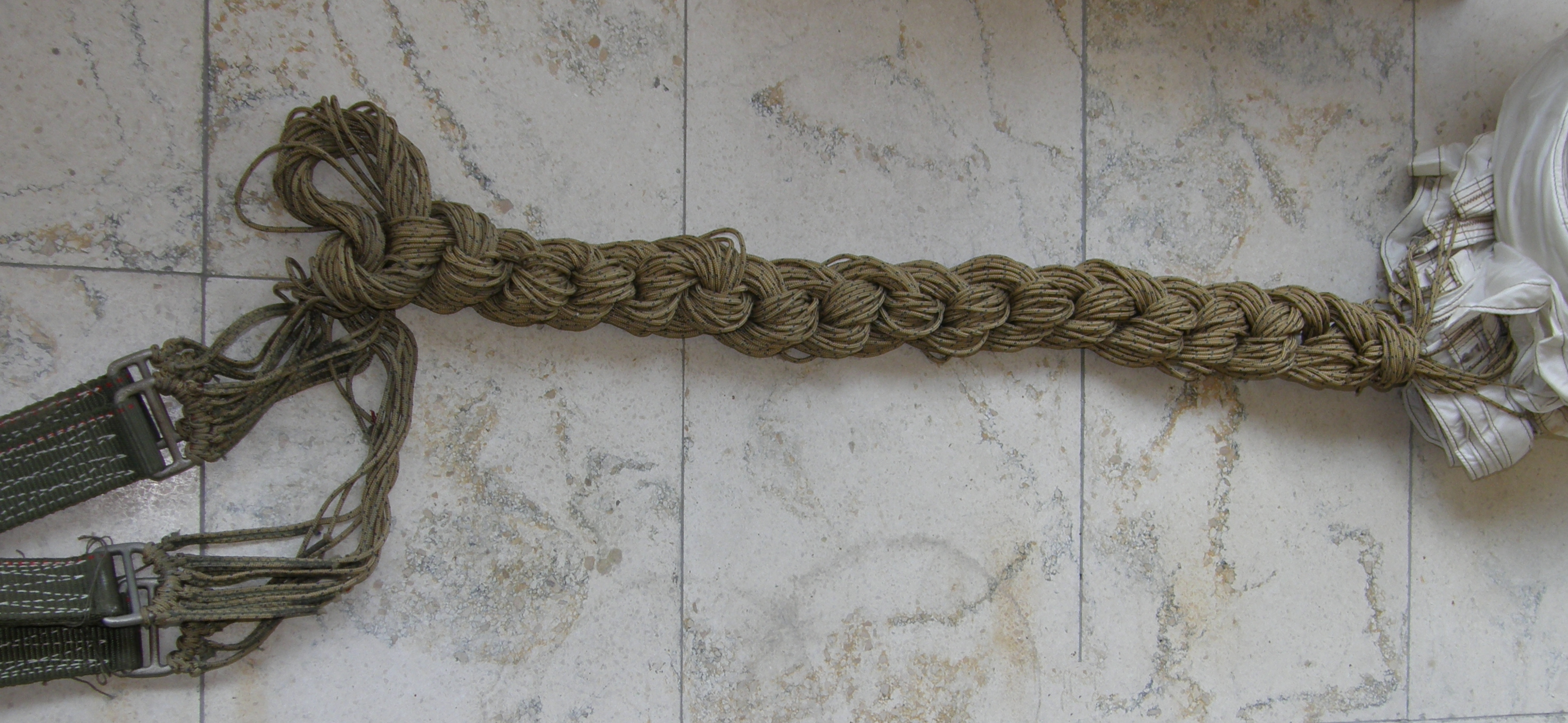 Chain-knot parachutelines